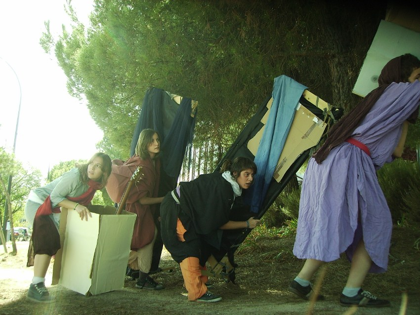 play a walk for love and death